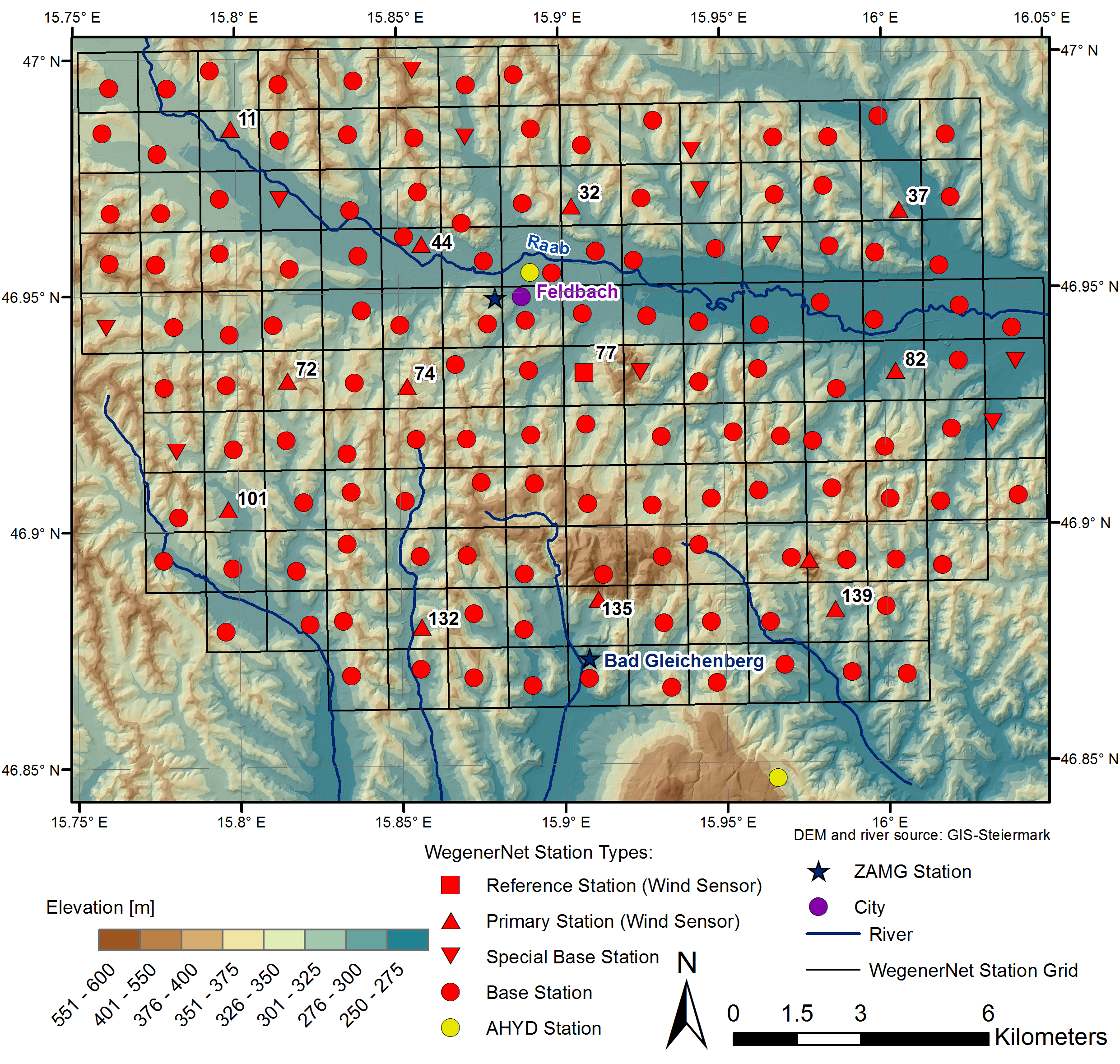 Station locations in the WegenerNet Feldbach Region. Stations marked in red are operated by the Wegener Center for Climate and Global Change: Base stations measure the main parameters air temperature, relative humidity and precipitation; special base stations additionally measure soil moisture and soil temperature; primary stations measure base parameters plus wind parameters and solid precipitation; the reference station measures all parameters plus air pressure and radiation balance. AHYD Stations are operated by the Austrian Hydrographic Service and measure precipitation and partly air temperature too.